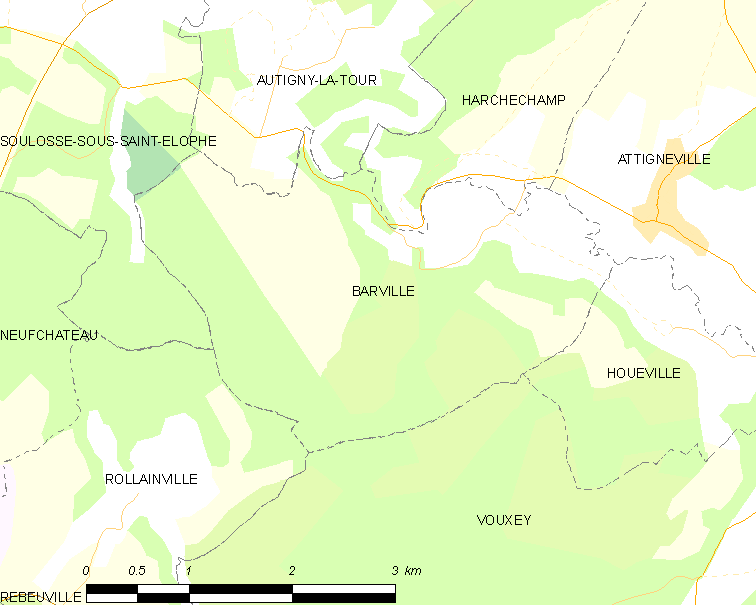 Map of French municipality Barville